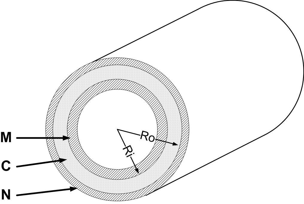 Gurney equation diagram of explosives engineering imploding cylinder configuration - inner hollow cylindrical mass M, evenly detonated explosive charge C, and outer tamper N.